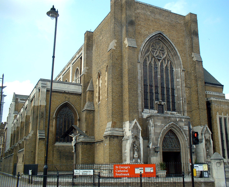 St George's cathedral Southwark. Taken by C Ford 29th Feb 04.